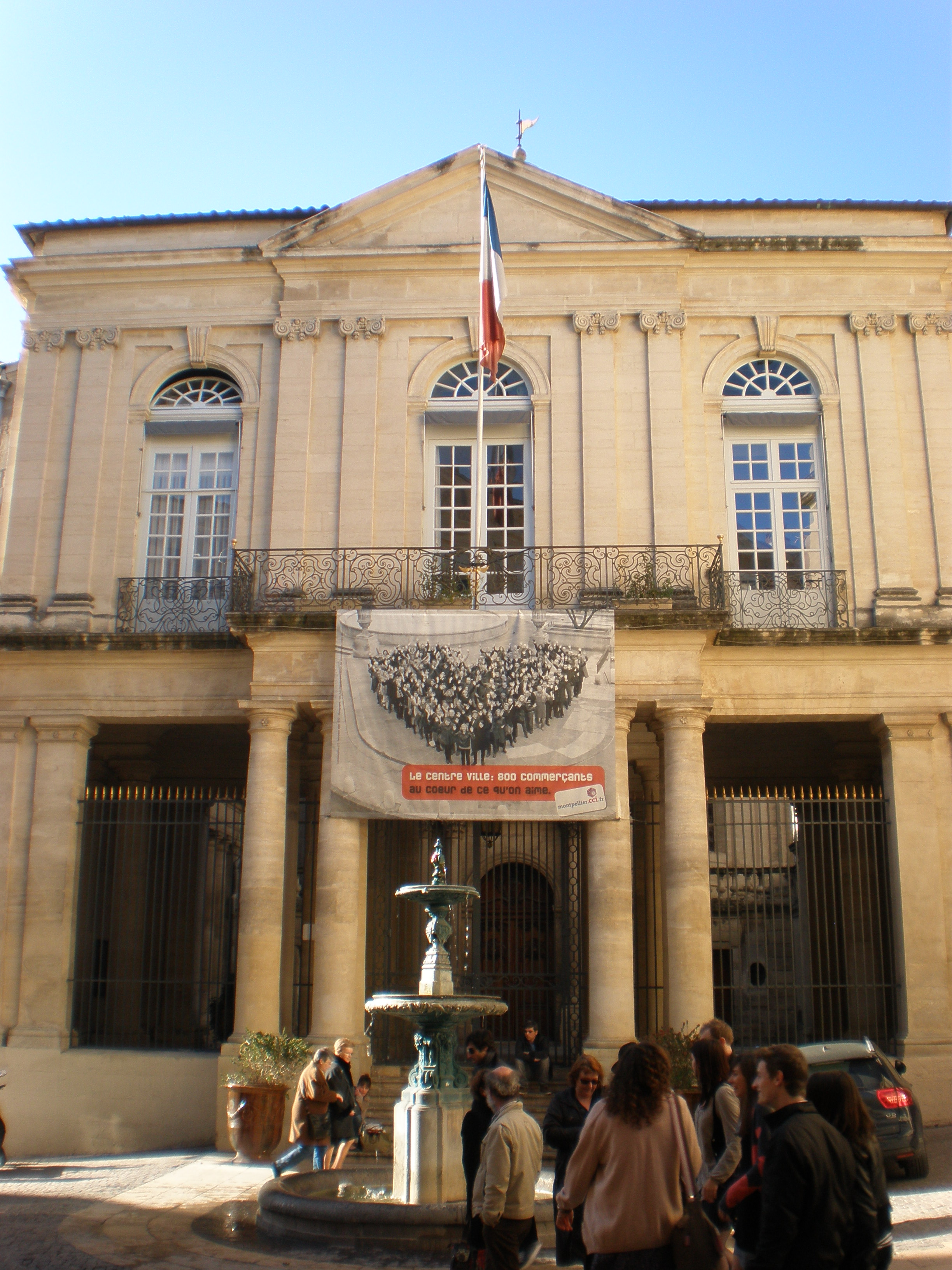 Hotel Saint-Come at Montpellier, headquarters of the Chamber of Commerce and Industry of Herault.